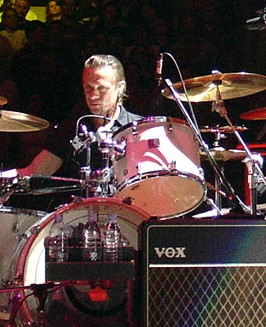 Source: Zachary Gillman [1]